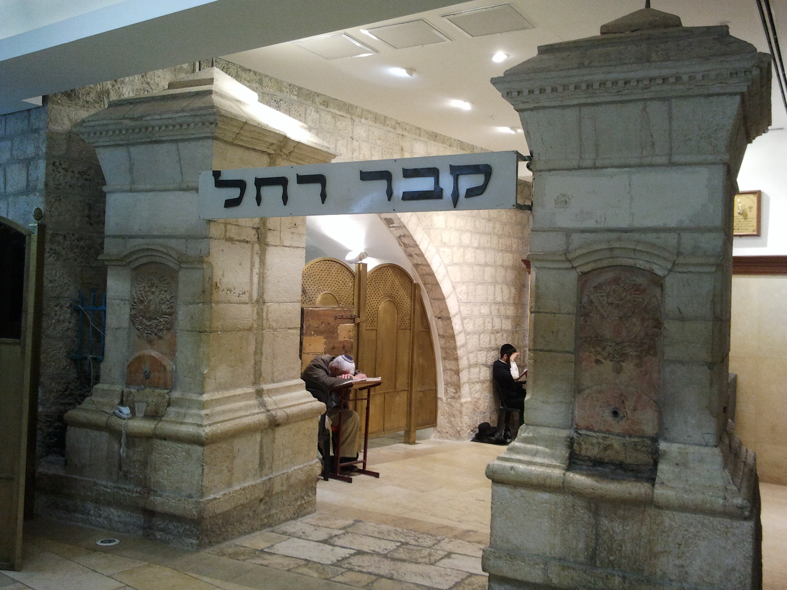 Rachel's Tomb Score